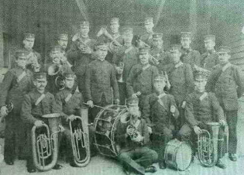 The Hanwell Band outside the Viaduct Inn, Hanwell in 1903.